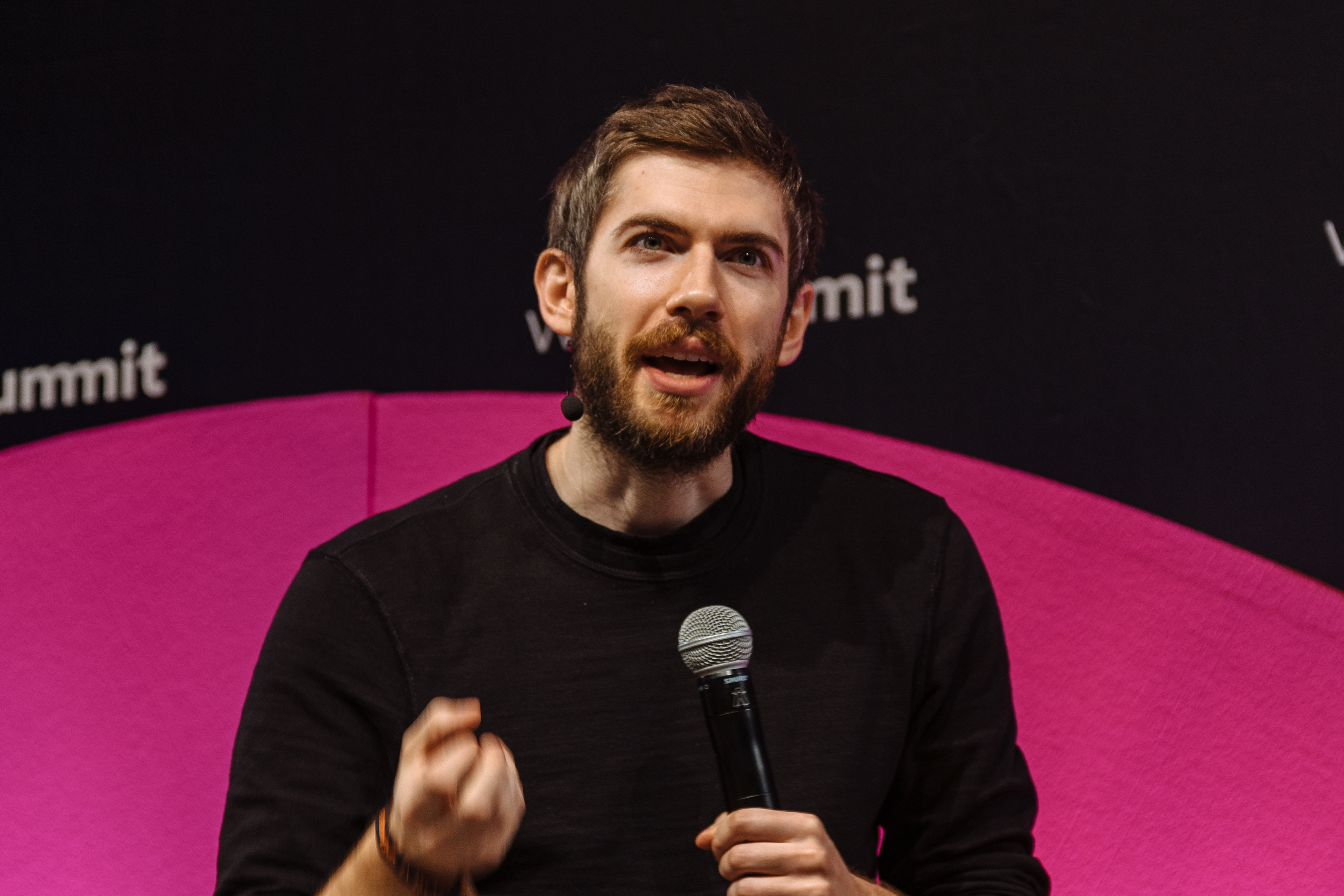 David Karp at Web Summit 2017 in Lisboa. Аҧсшәа: David Karp auf dem Web Summit 2017 in Lissabon.